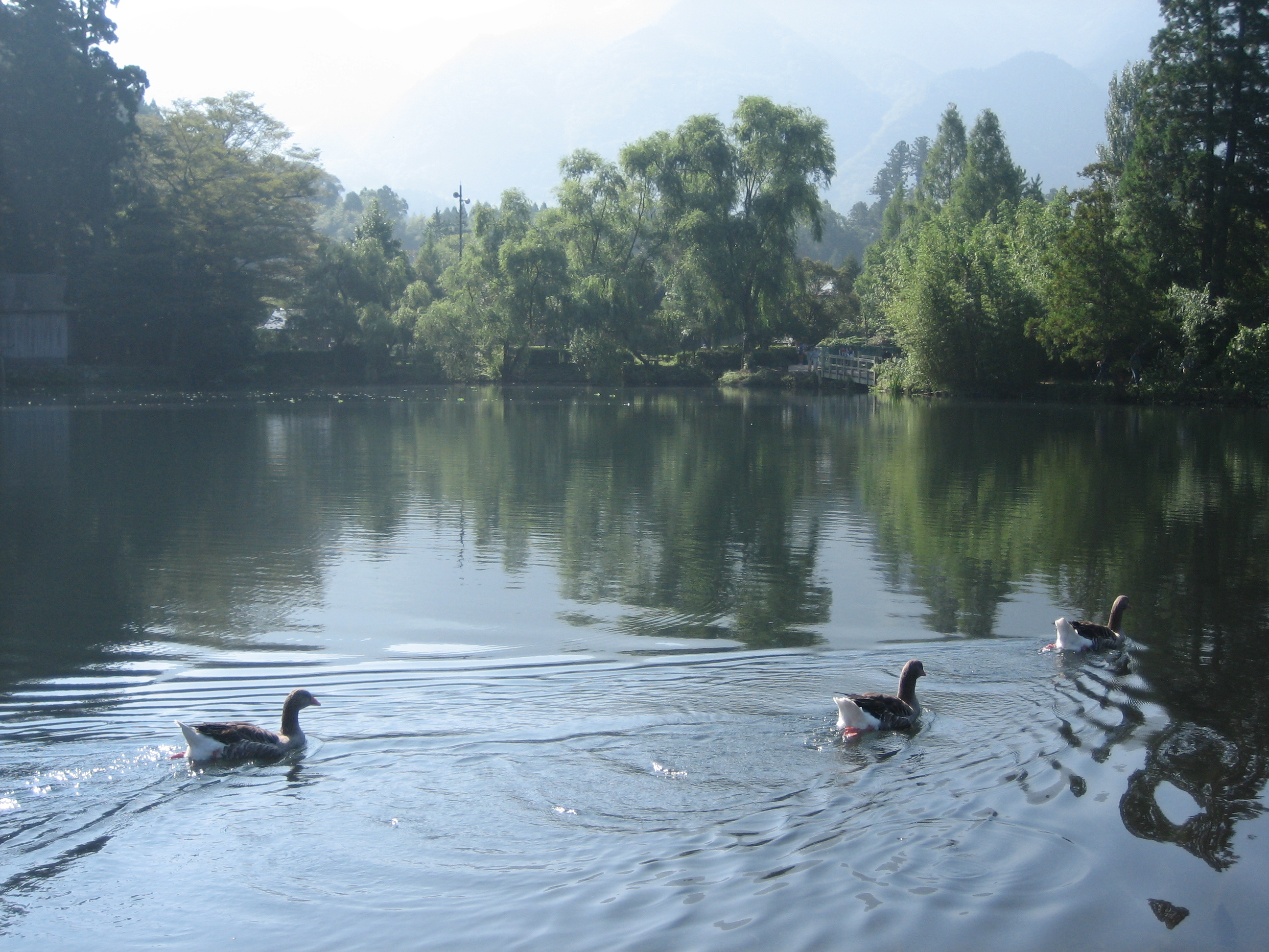 Lake Kinrin in Yufuin, Yufu, Oita, Japan